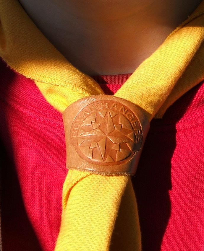 Leather woggle belonging to the neckerchief of a 6-8 Years old Scout of the German Royal Rangers